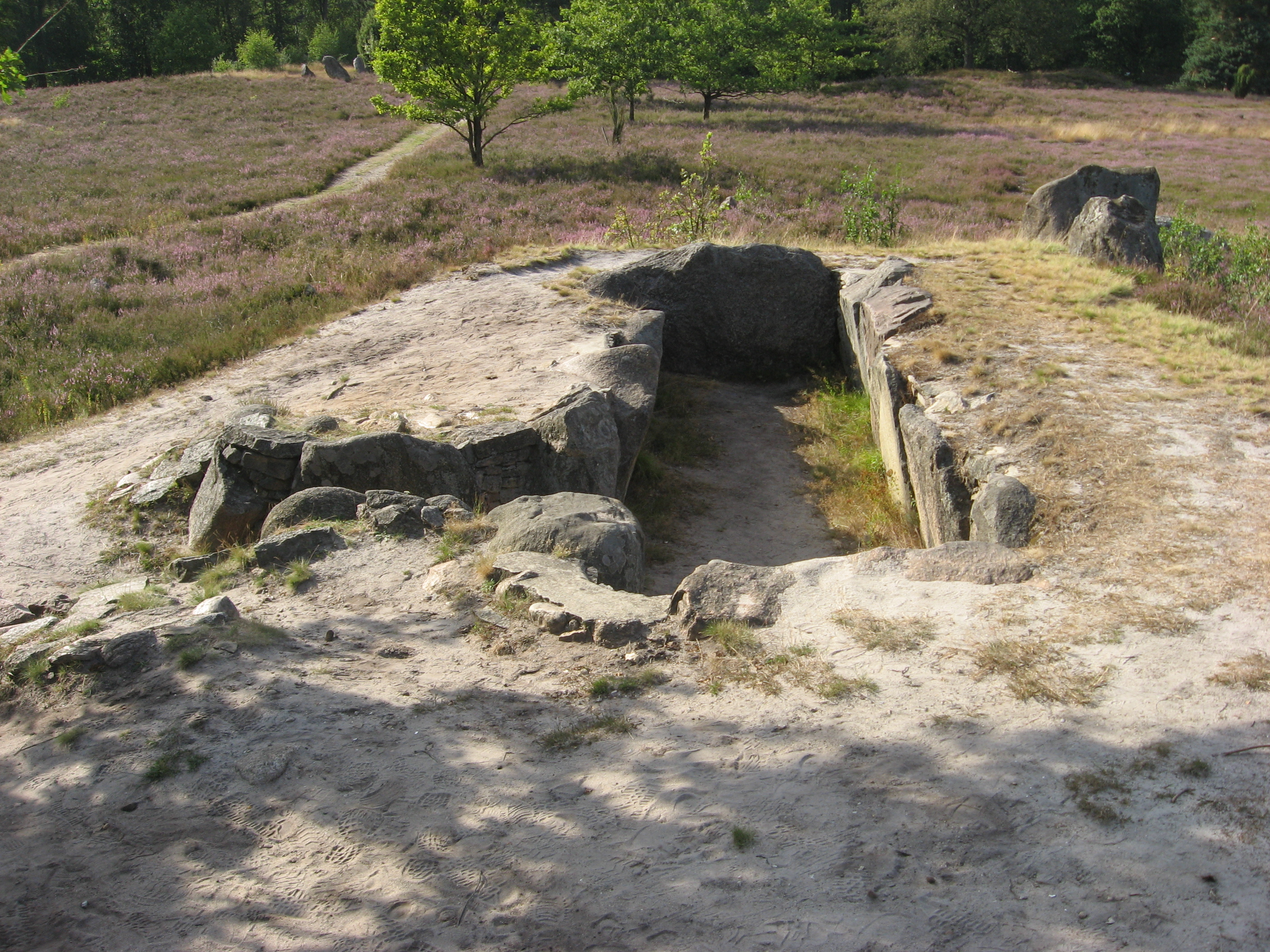 megalithic grave IV Oldenburger Totenstatt